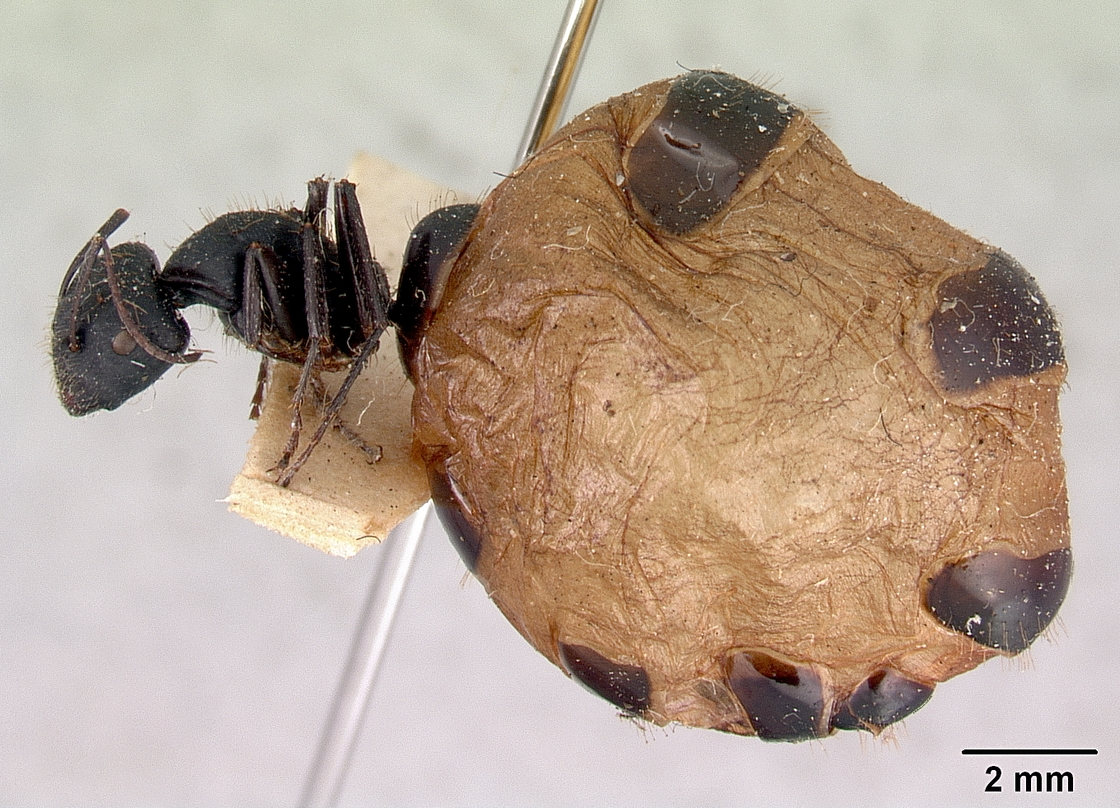 Profile view of ant Camponotus inflatus specimen casent0172171.